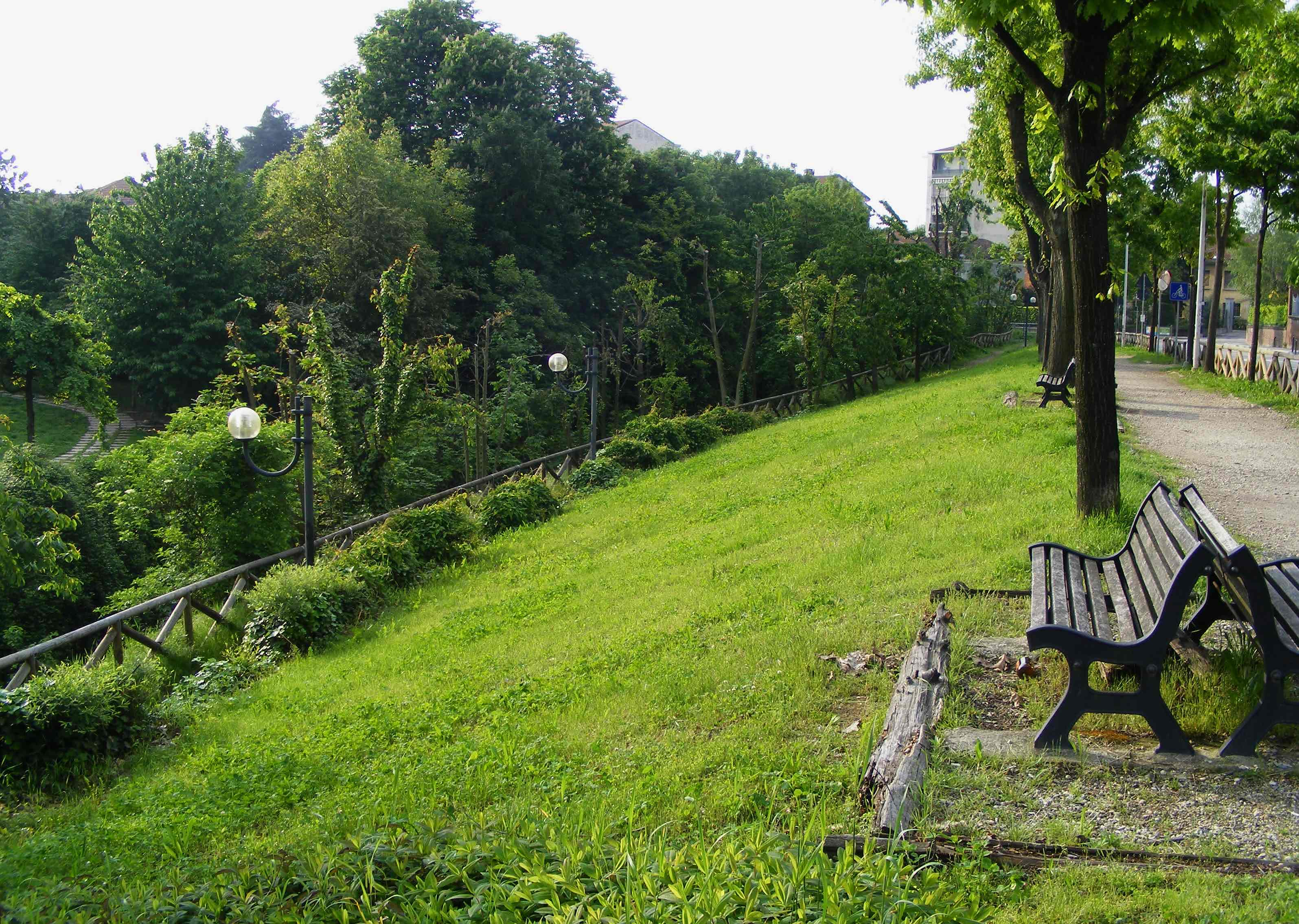 Tepice creek banks in via Fasano, Chieri (TO, Italy)